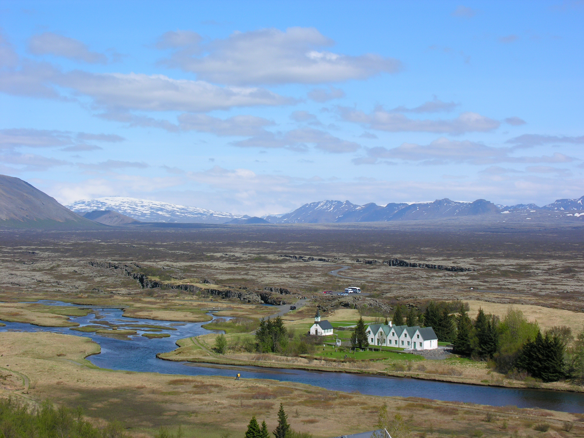 Iceland, a day around Þingvallavatn